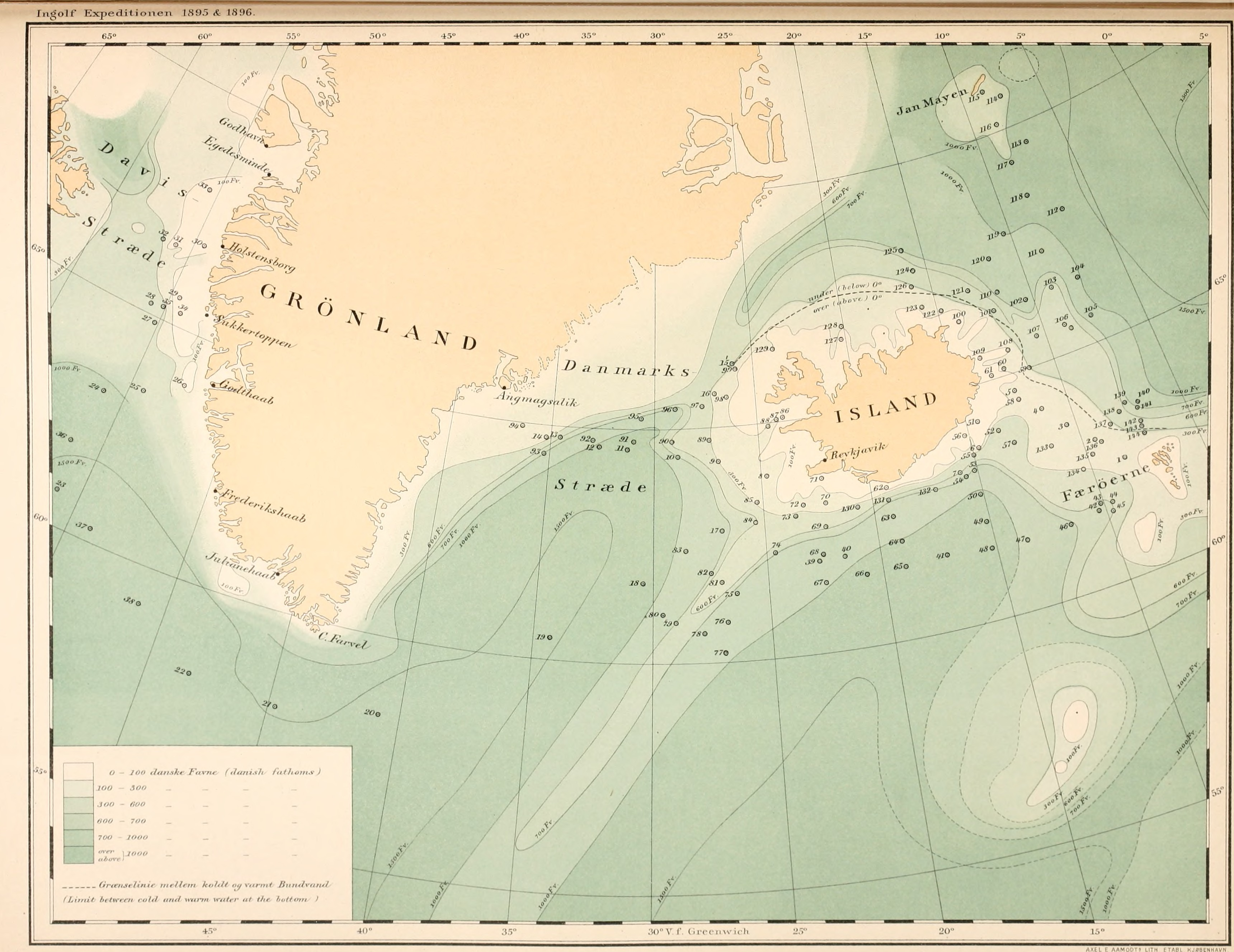 Title: The Danish Ingolf-Expedition Year: 1899 (1890s) Authors: Ingolf (Cruiser); Danish Ingolf-Expedition (1895-1896) Subjects: Scientific expeditions; Arctic Ocean Publisher: Copenhagen : H. Hagerup Text Appearing Before Image: ' Text Appearing After Image: '